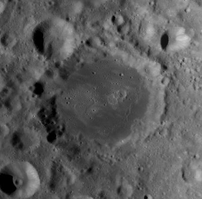 LROC image WAC No. M118845144ME. Calibrated by LROC_WAC_Previewer.